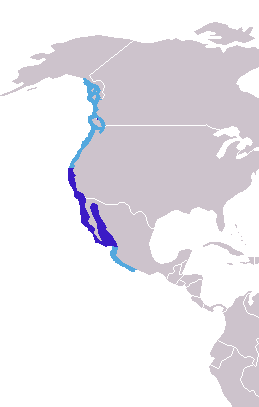 Distribution of the Californian Sea Lion, Zalophus californianus (dark blue = subspecies Z. c. californianus, breeding colonies; light blue = subspecies Z. c. californianus, non-breeding individuals; red = subspecies Z. c. wollebaeki)